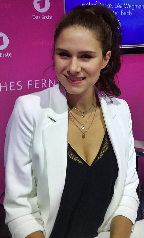 Helen Barke at the autograph session at the IFA 2019